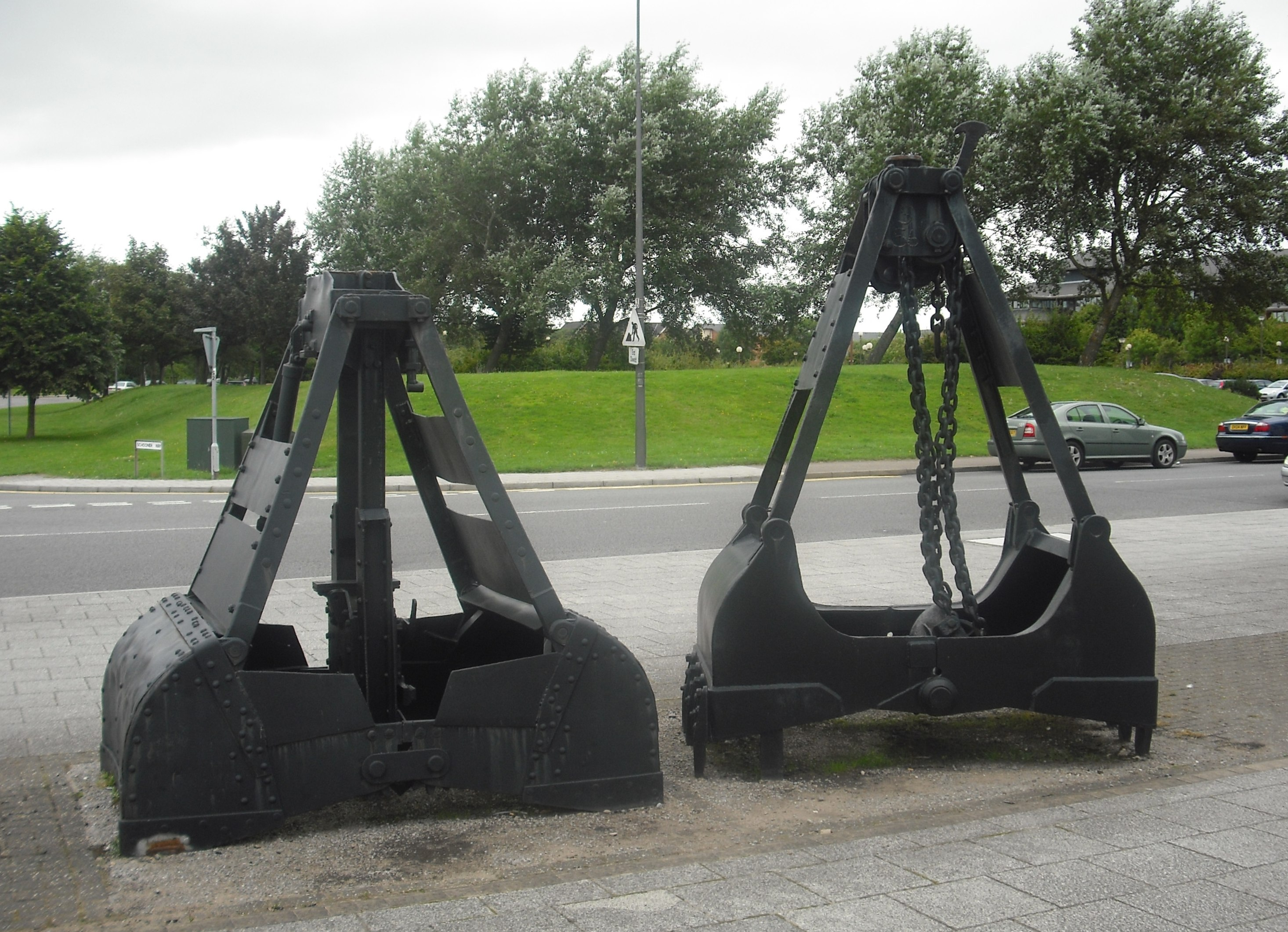 Coal loading shell grabs, now a street art installation near Cardiff Bay